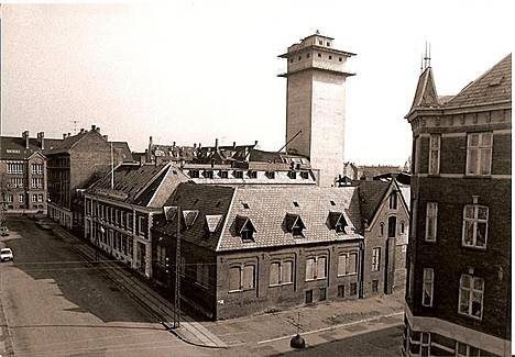 Arbejdernes Fællesbageri, a cooperative bakery in Nørrebro, Copenhagen. Squatted 1981 and 1983 and demolished 1985.